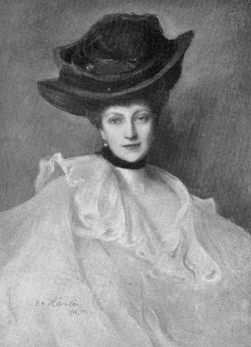 Archduchess Elisabeth Marie of Austria